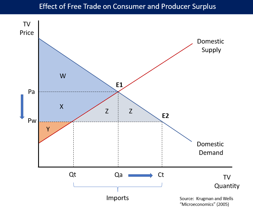 According to General equilibrium theory, opening trade to imports lowers the price from Pa to Pw and increases the quantity from Qa to Ct. This increases consumer surplus by X+Z, while reducing producer surplus by X. The net gain in overall welfare is therefore area Z.